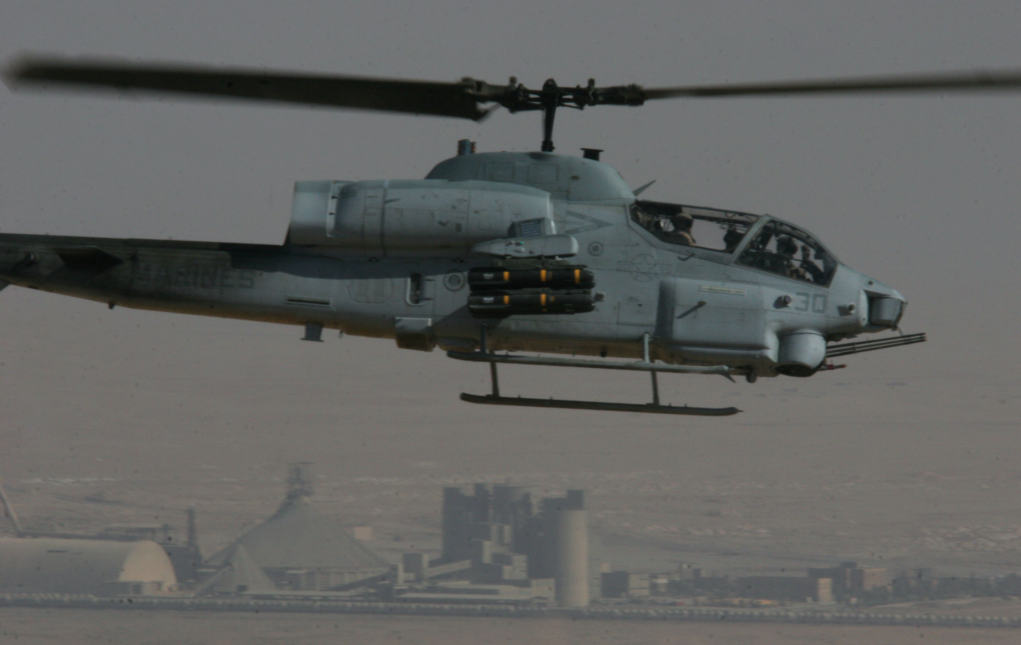 An US Marine Corp AH-1 Cobra